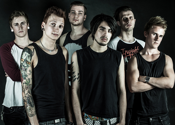 Rozenhill Press 2013